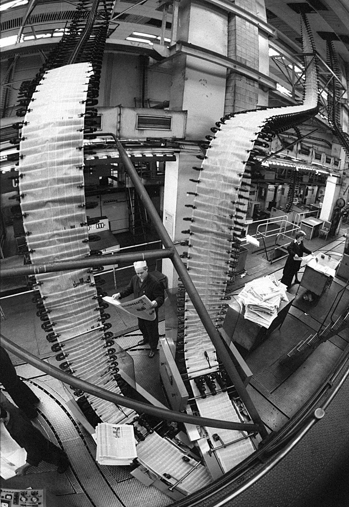 “Pravda newspaper printing”. Rotary shop routine at the printing press of the Pravda, leading Soviet daily.